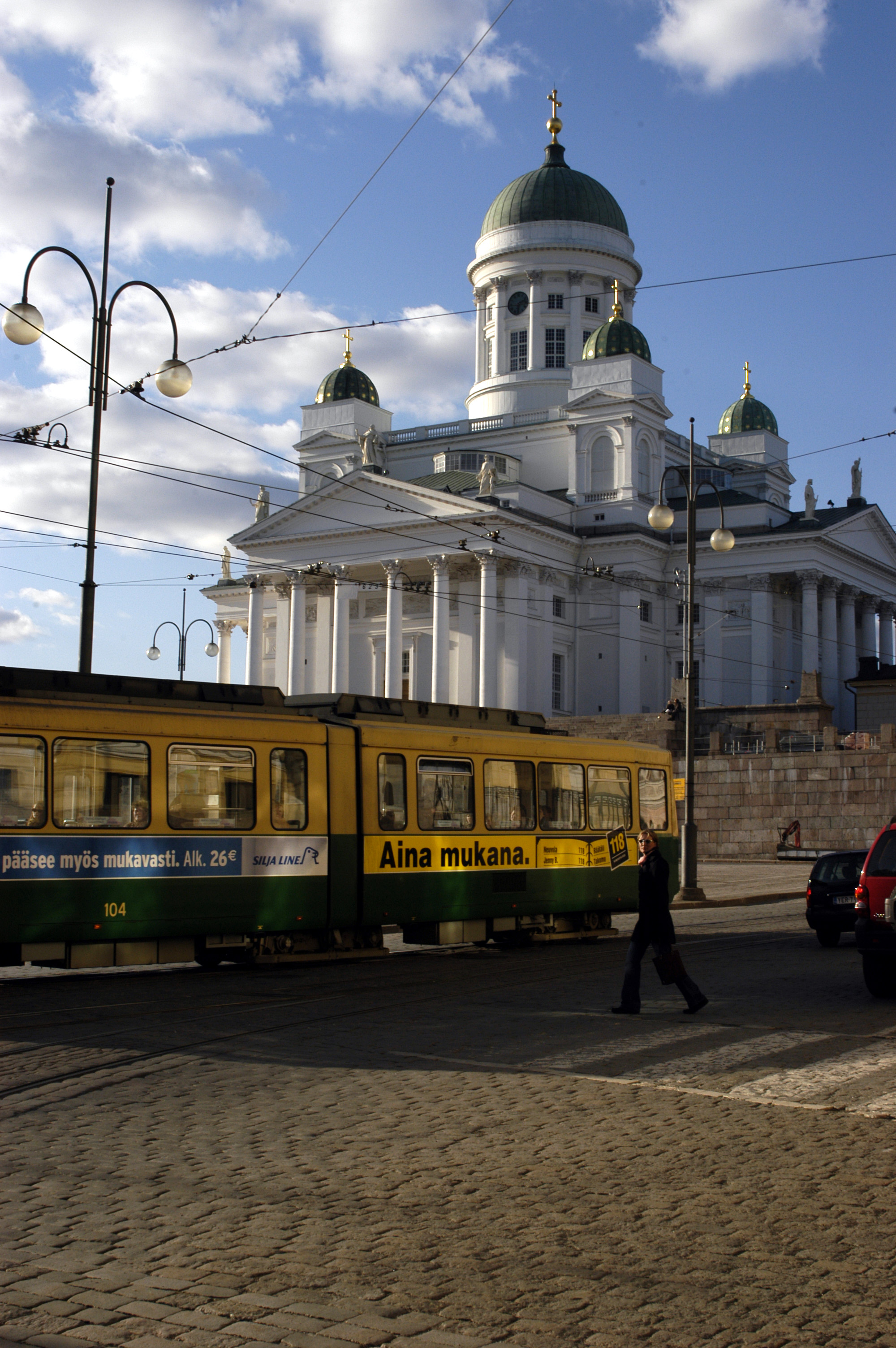 Spårvagn på Senatstorget i Helsingfors Keywords: Architecture, Transport, Finland